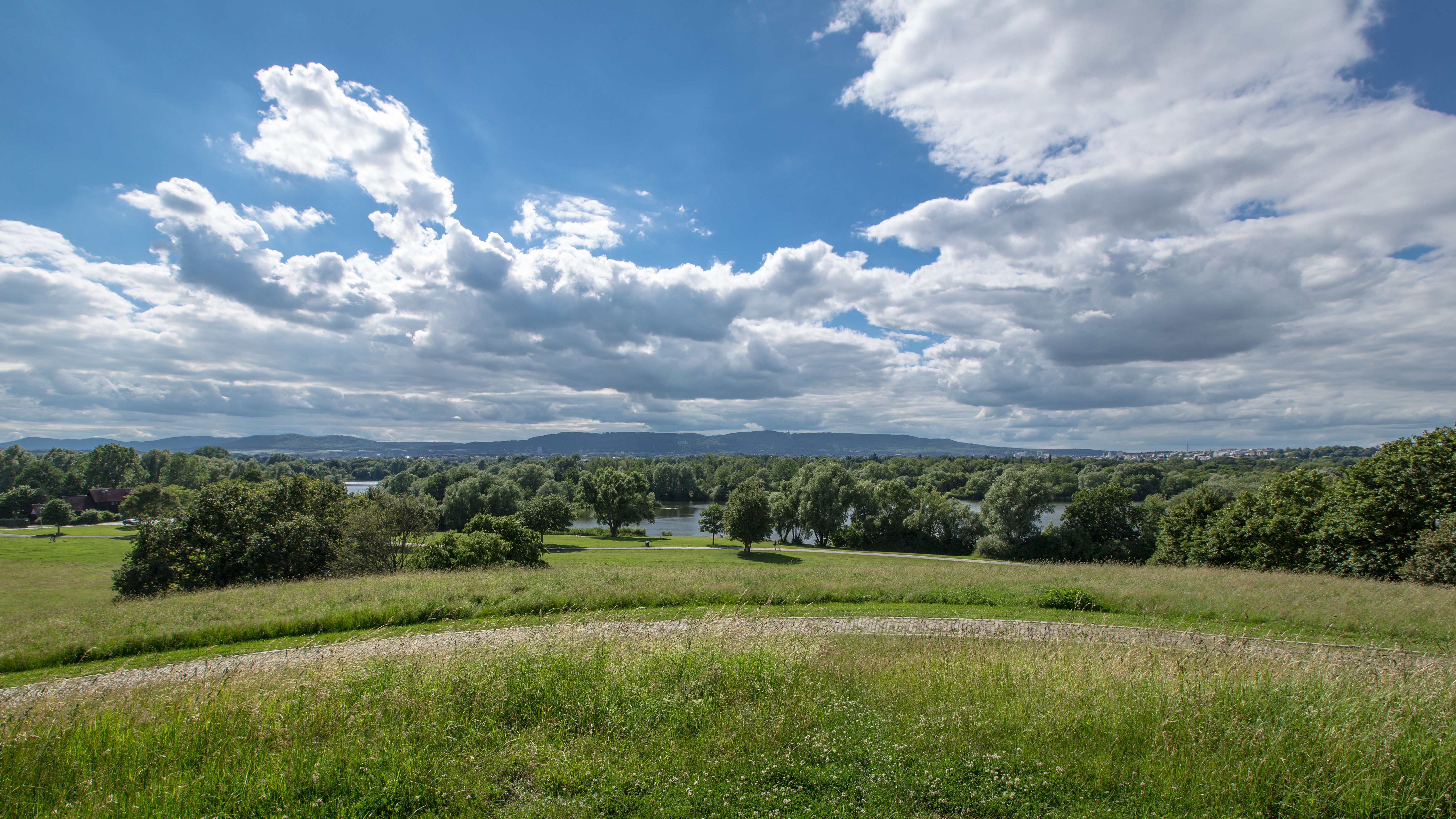 Fuldaaue in Summer 2016. South west view.